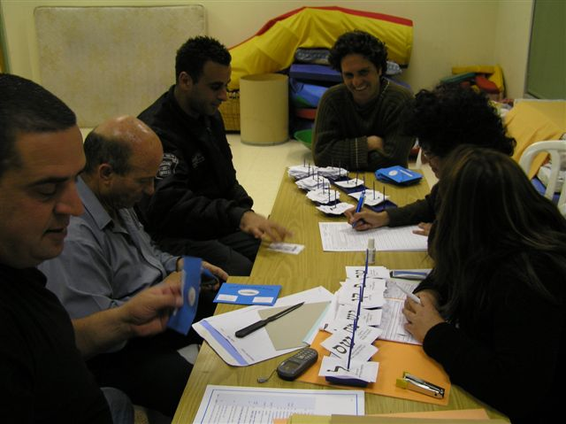 Government elections 2006, Events in Israel , Notes: (2127)